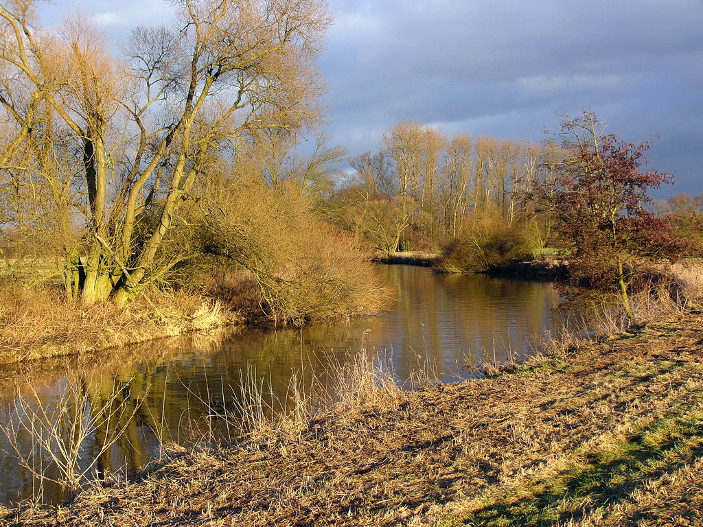 Ohm. A tributary river to the Lahn (Hesse/Germany).